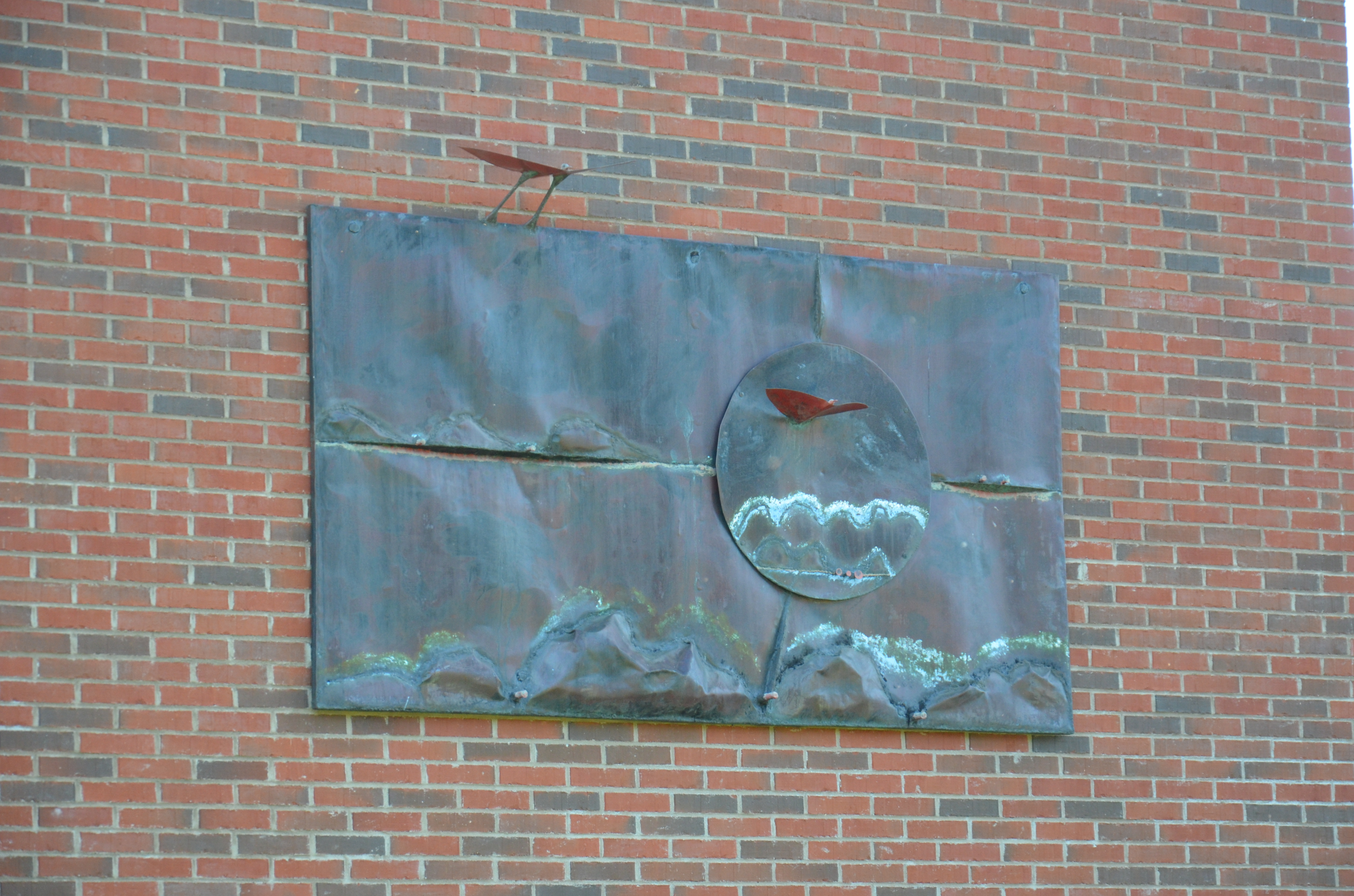 Relief, Halmstad copper, at office building wall, Sperlingsholmsvägen, Halmstad